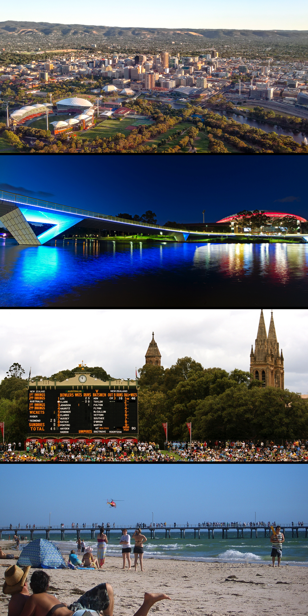 Montage of Adelaide sights from other Wikipedia commons photos.